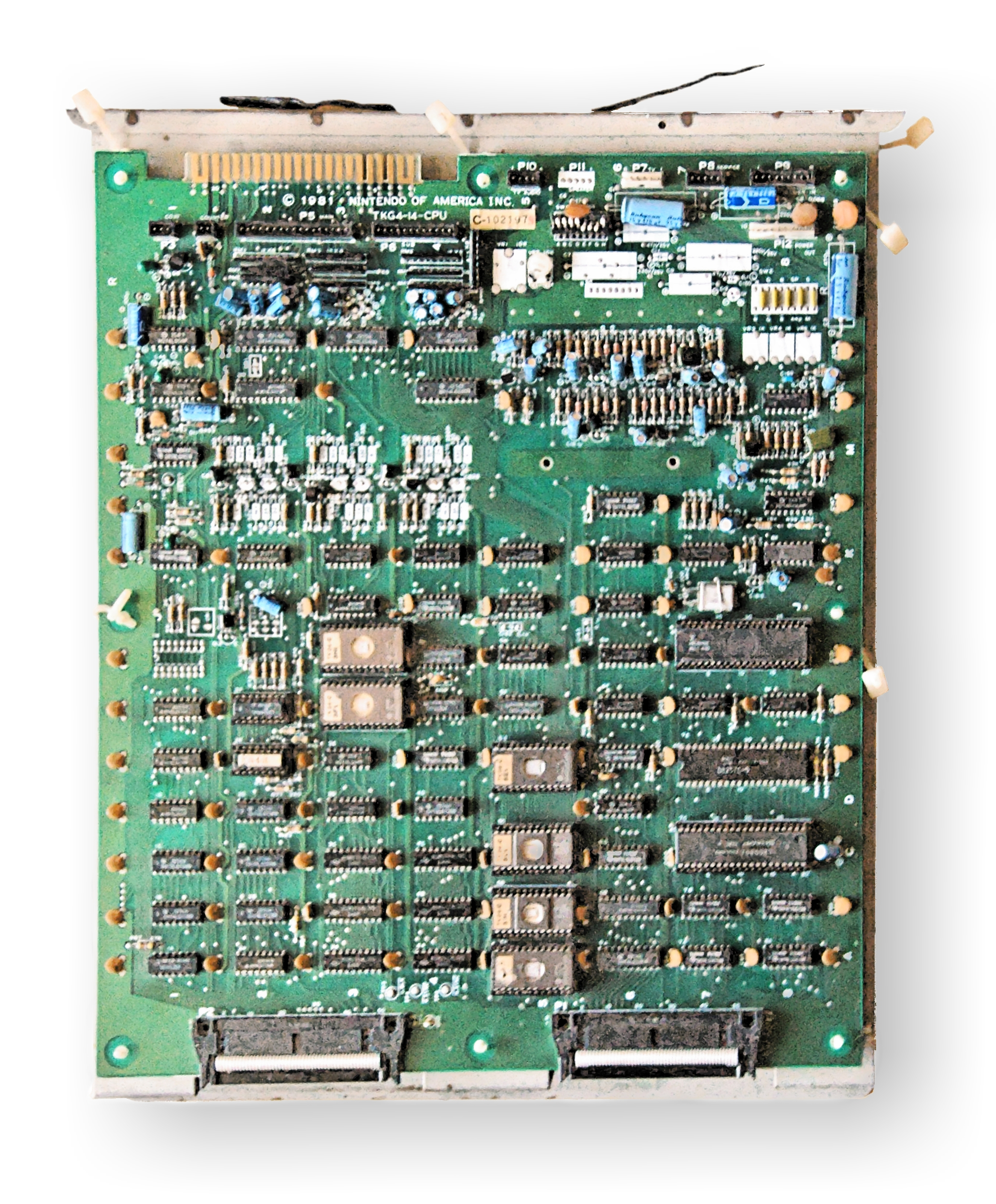 Nintendo Donkey Kong main board